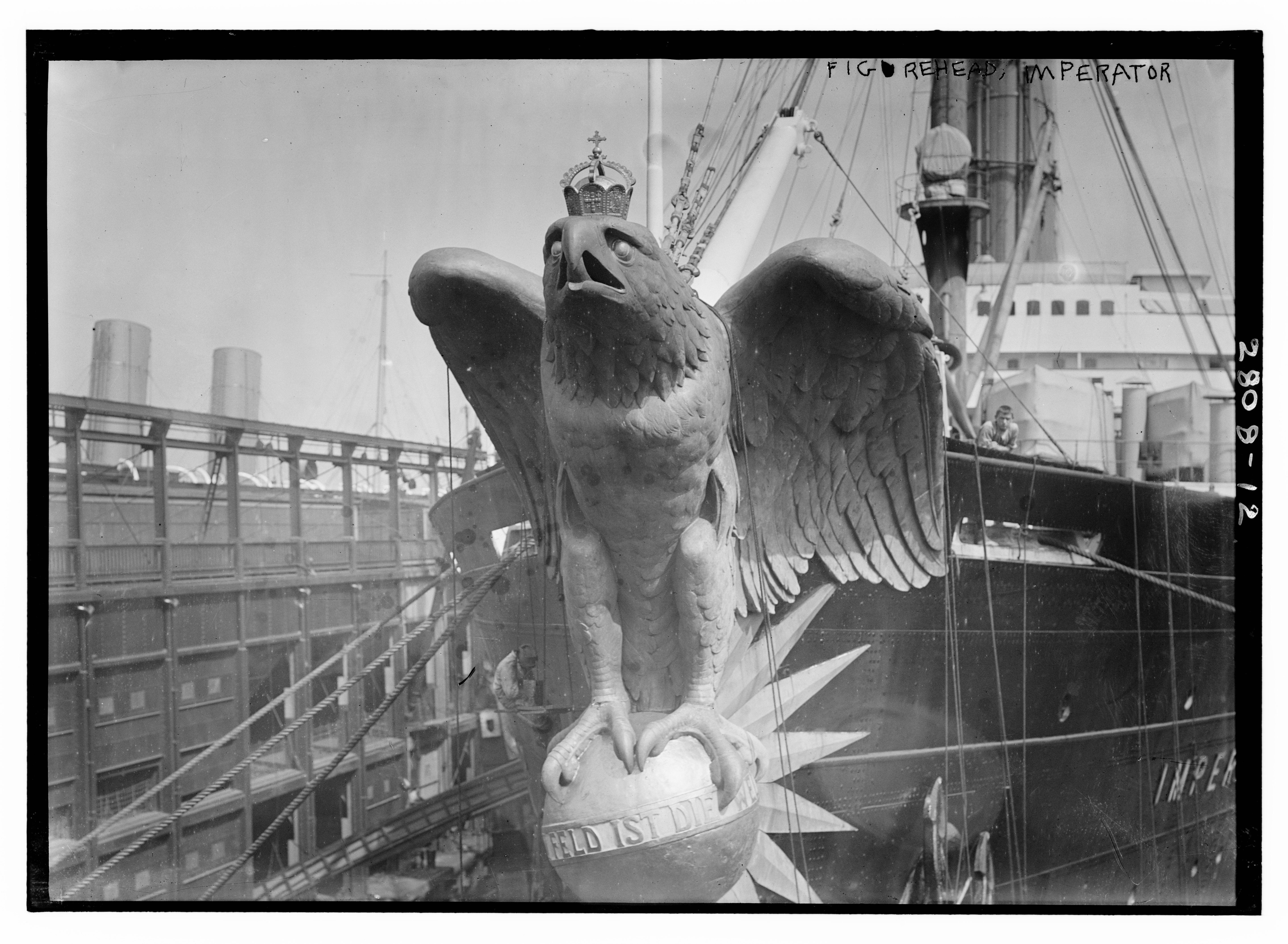 Title: IMPERATOR - figurehead Abstract/medium: 1 negative : glass ; 5 x 7 in. or smaller.